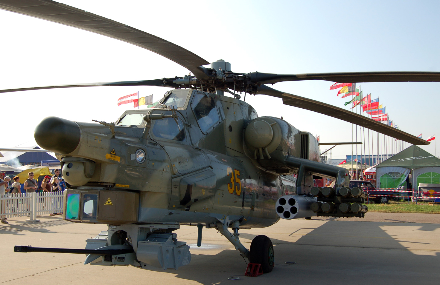 Mil Ми-28НЭ (the international aerospace salon MAKS-2007)